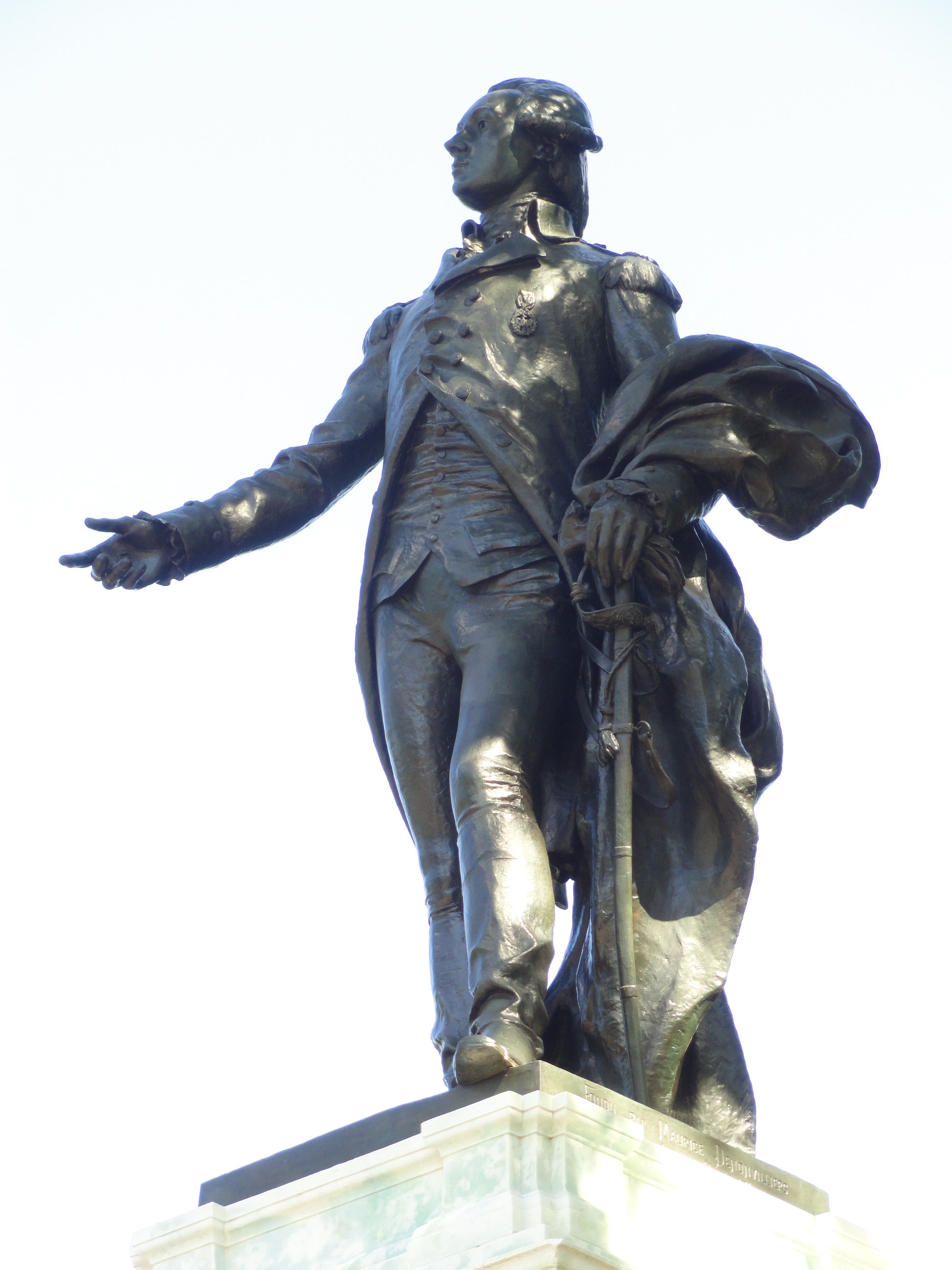 Monument to Major General Marquis Gilbert de Lafayette, Lafayette Park, Washington, D.C., USA. Sculptor: Jean Alexandre Joseph Falguière (1831-1900). This artwork is now in the public domain because the artist died more than 70 years ago.